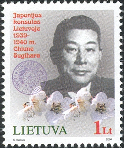 Stamps of Lithuania, 2004